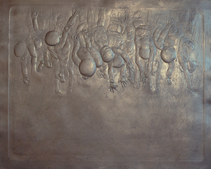 Our Injustice, Vietnam 1970 Embossed print